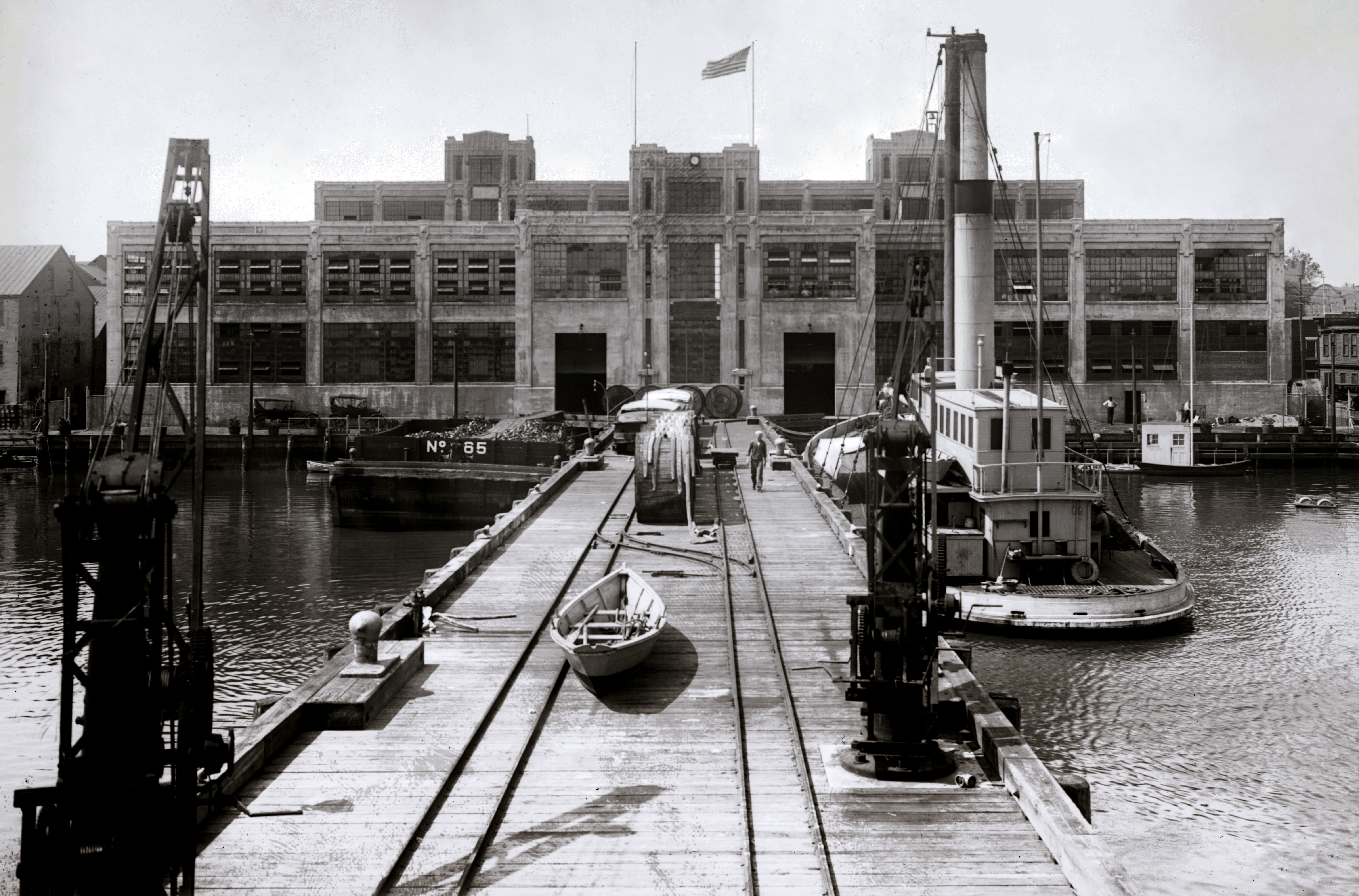 The U.S. Naval Torpedo Station in Alexandria, Virginia, which manufactured Mark III torpedoes in the 1920s and Mark XIV torpedoes during World War II. The building now houses the Torpedo Factory Art Center located at 105 Union Street on the Potomac River waterfront. The Center includes 82 working artists' studios, six galleries (art, photography, crafts, ceramics), two workshops, the Art League School, Discover Graphics Atelier Inc., and the Alexandria Archaeology Museum.